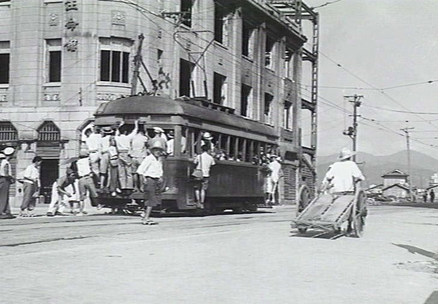 ONE OF THE BATTERED TRAMS LEFT IN THE AREA CARRYING ITS USUAL OVERLOAD OF PASSENGERS, ONE YEAR AFTER THE ATOM BOMB WAS DROPPED.